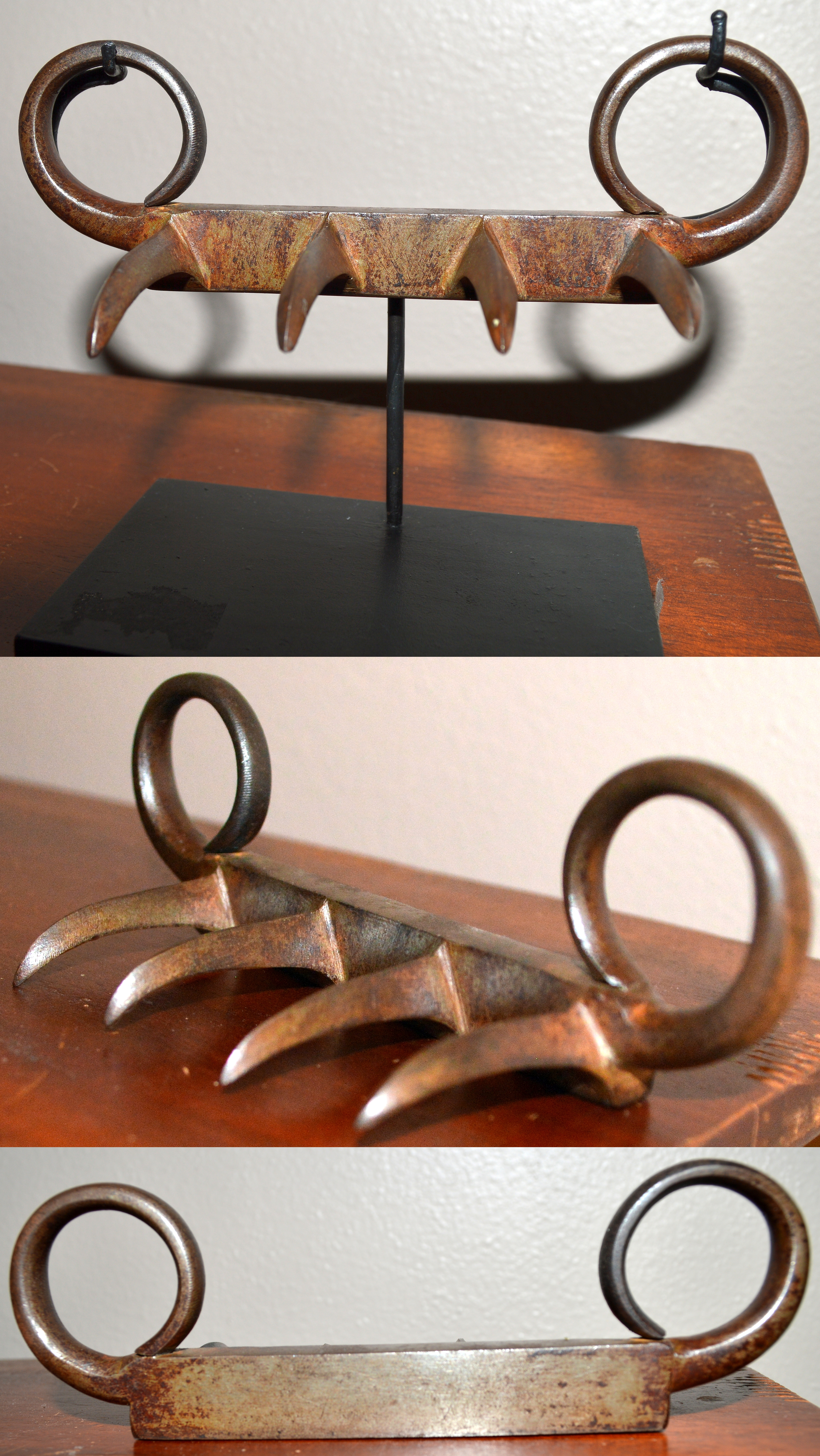 Indian Bagh Nakh, 18th to 19th century, (also known as Bagh Naka, wagh nakh, or bhagunakha)(Marathi: वाघनख / वाघनख्या, Hindi: बाघ नख, Urdu: باگھ نکھ), a claw-like weapon from India designed to fit over the knuckles or be concealed under and against the palm. It usually consists of four or five curved blades affixed to a crossbar or glove, and is designed to slash through skin and muscle. It is believed to have been inspired by the armament of big cats, the term bagh naka means tiger's claw in Hindi. One piece of solid steel with four thick triangular claws.